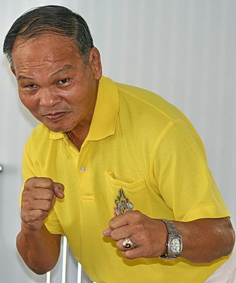 Thai boxer Chartchai Chionoi